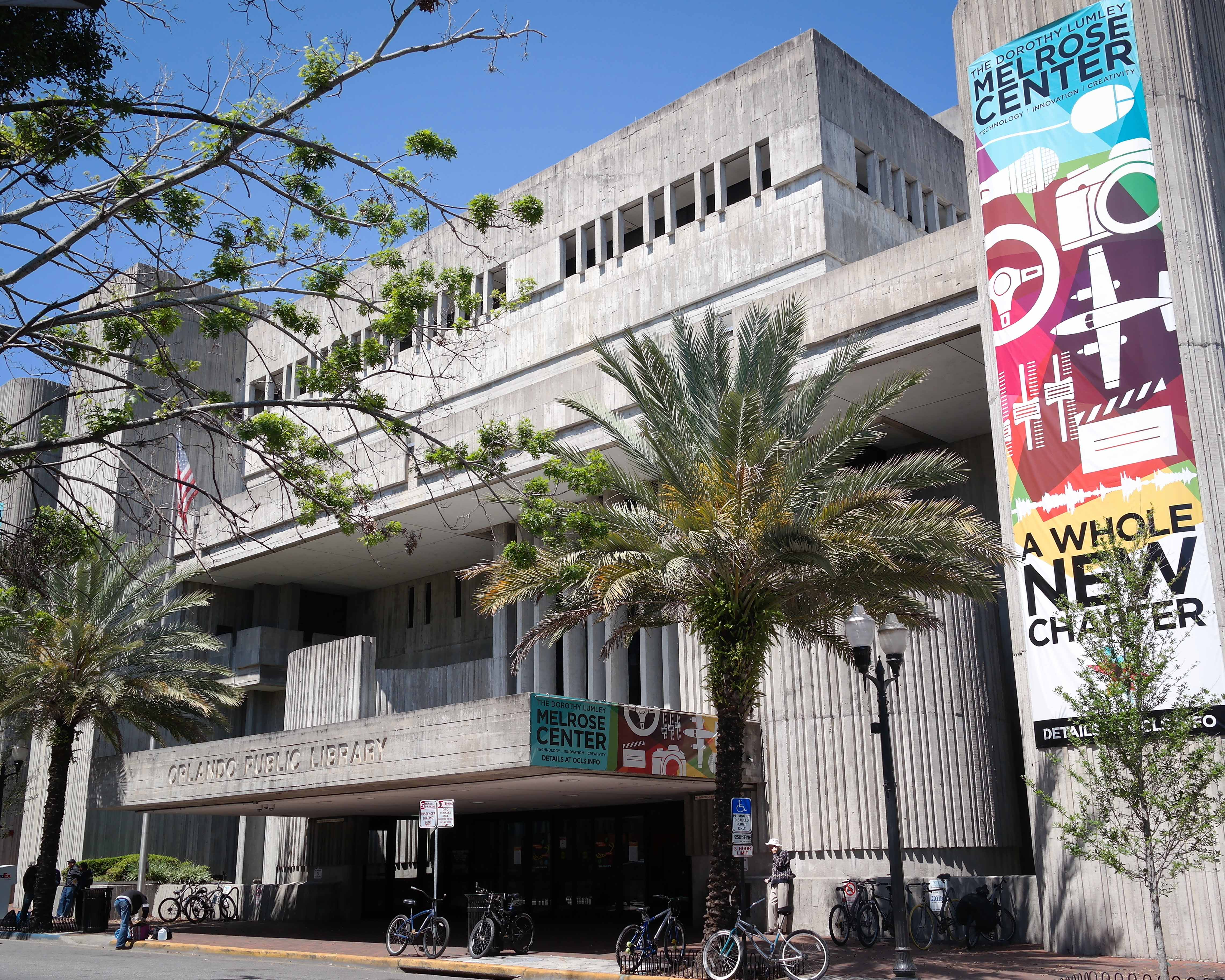 A view of the Orlando Public Library, part of the Orange County Library System, in Orlando, Florida